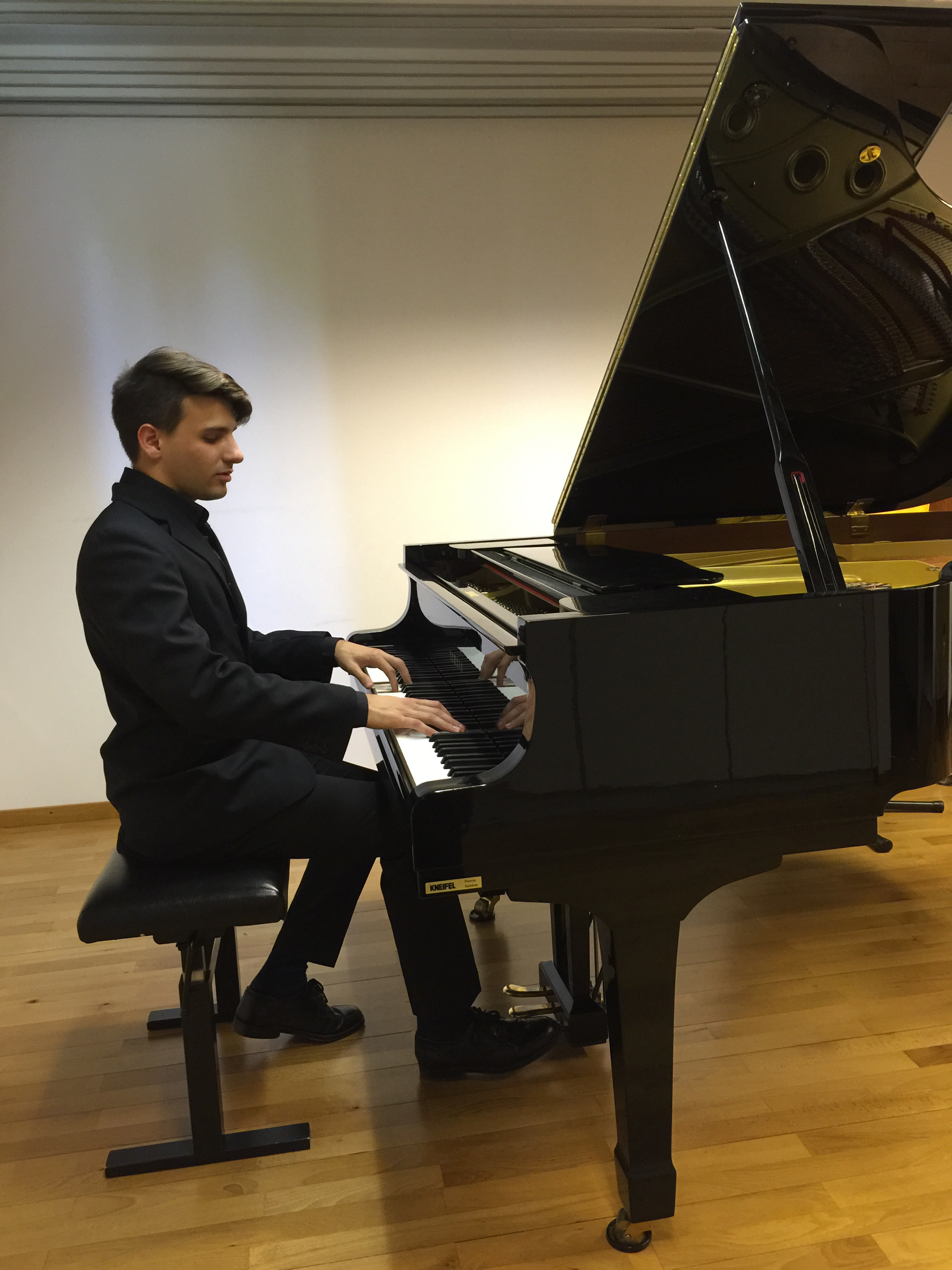 Geneva - Switzerland 2015